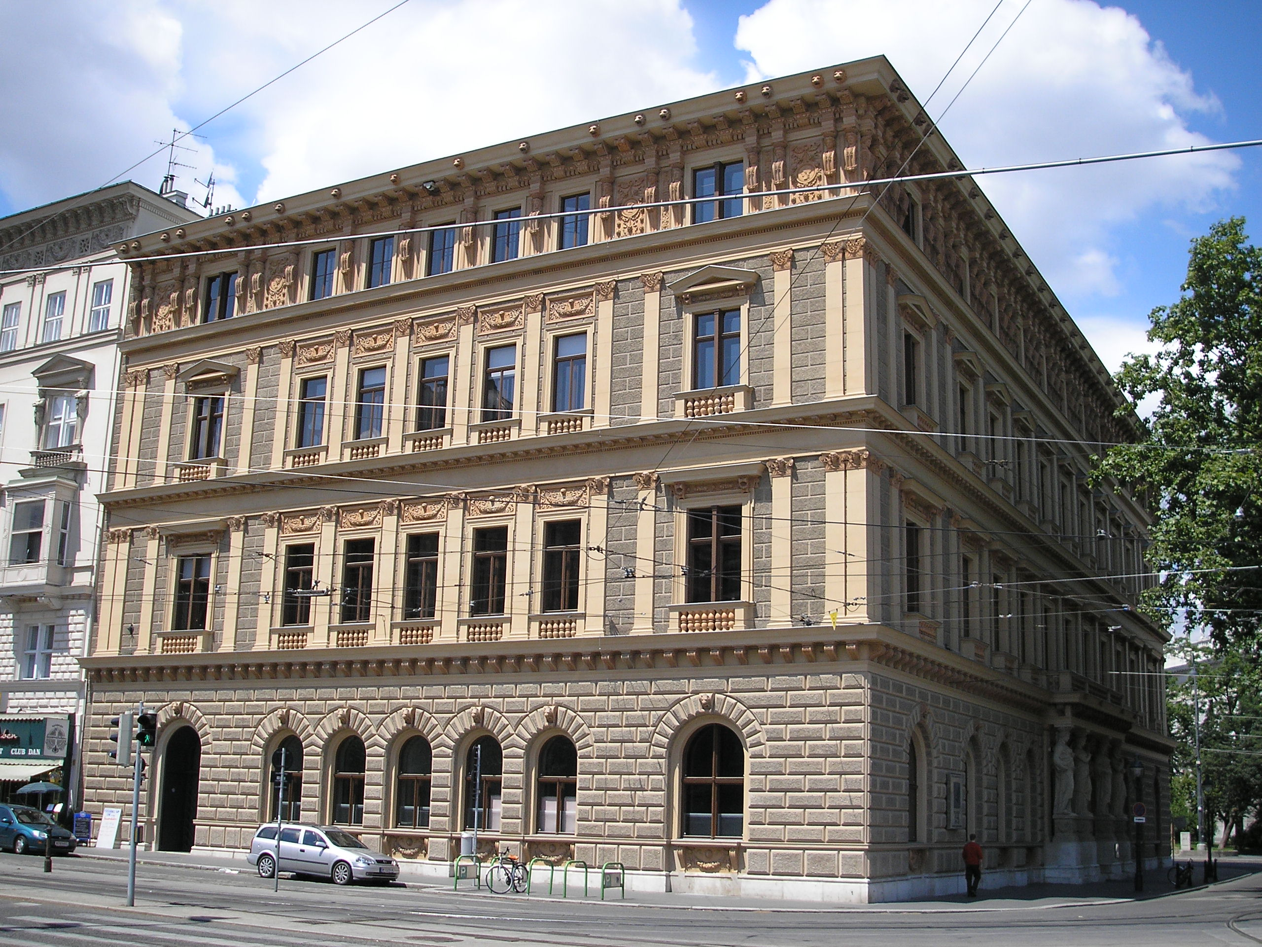 The Palais Epstein at the Ringstraße in Vienna. Constructed in the late 1800's to early 1900's, it is a typical example of a Ringstraßenpalais. Built for the Jewish Austrian noble Gustav Ritter von Epstein, it currently houses the offices of MPs of the nearby Austrian Parliament.